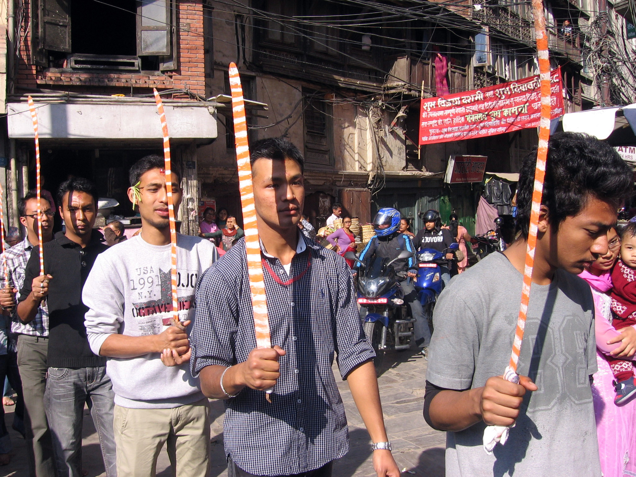 Procession of Tuladhars carrying ritual swords during Asan Paya festival in Kathmandu.People on the image are Anil Bir Singh Tuladhar , Amir Bir Singh Tuladhar , Pramit Bir singh Tuladhar ....